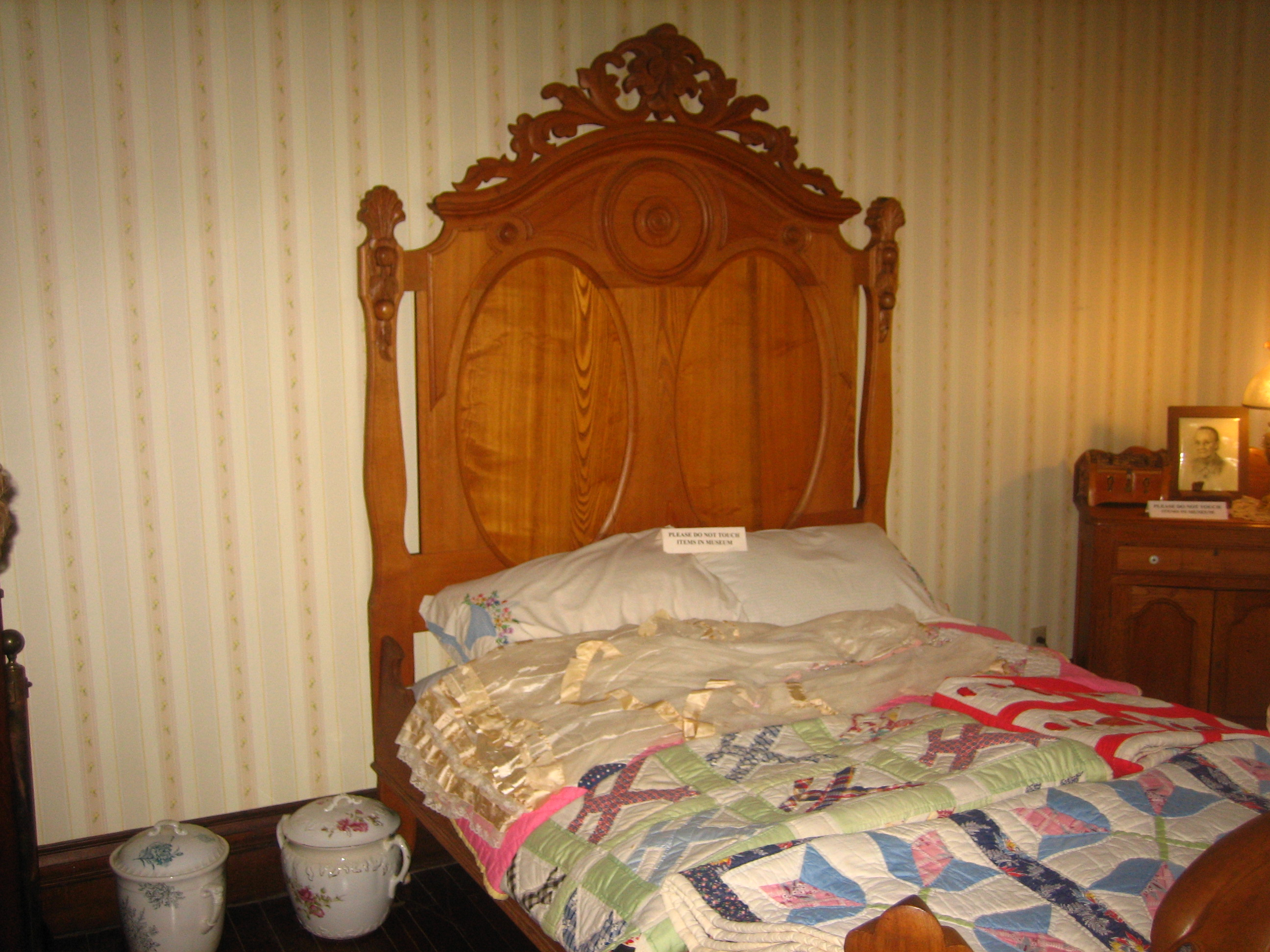 Bedroom at White-Pool House, Odessa, TX